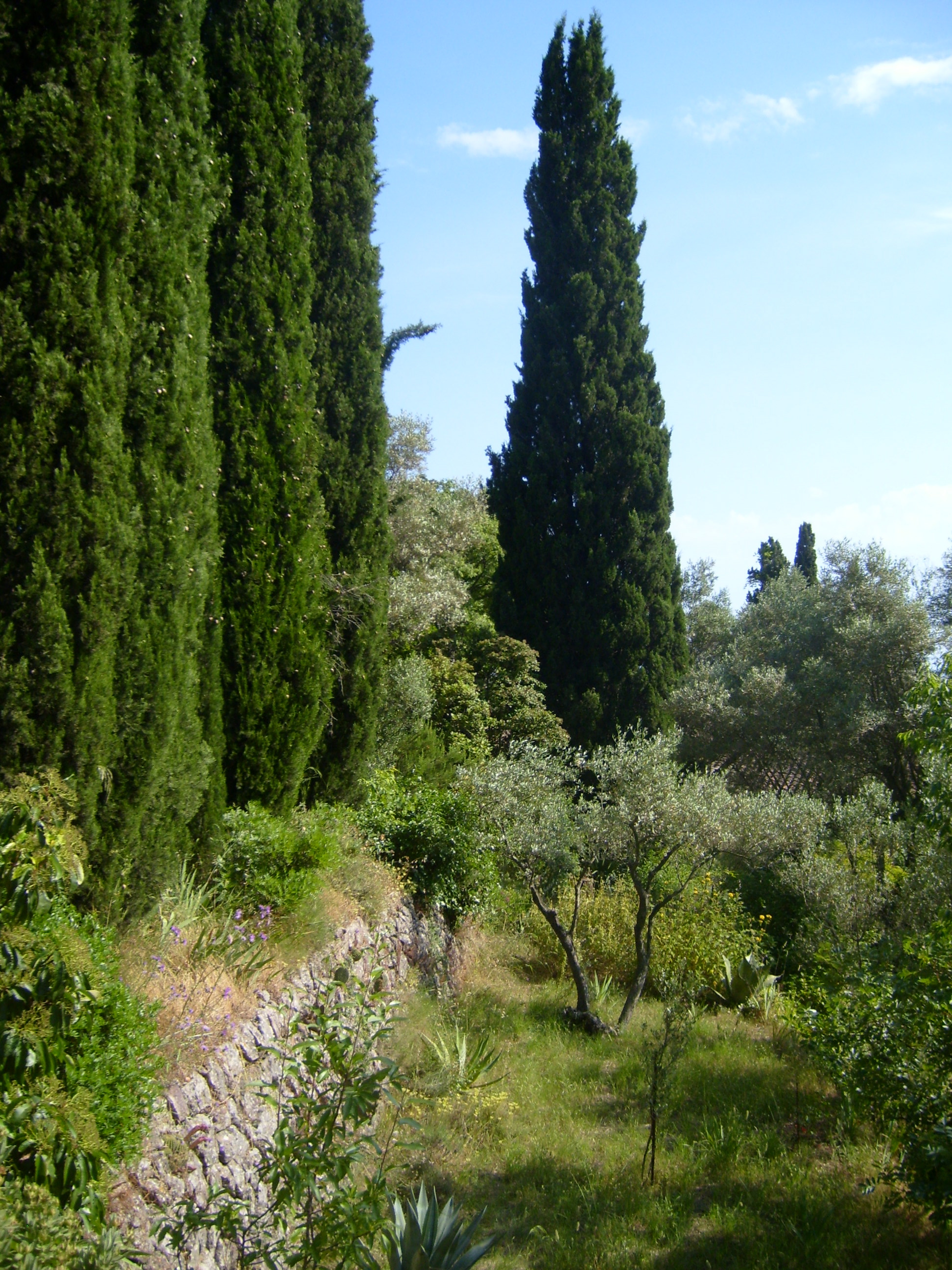 Domaine d'Orves, Var Department, France